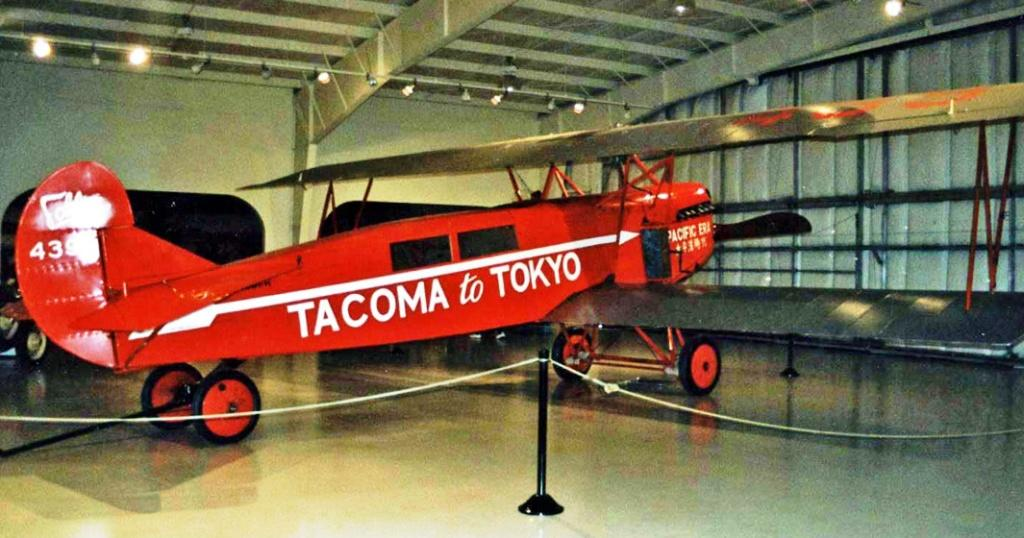 Fokker C.IVA, built 1923, modified with cabin for transport of passengers, intended for non-stop flight Tacoma-Tokyo but crashed after take-off and was damaged. Now restored and airworthy